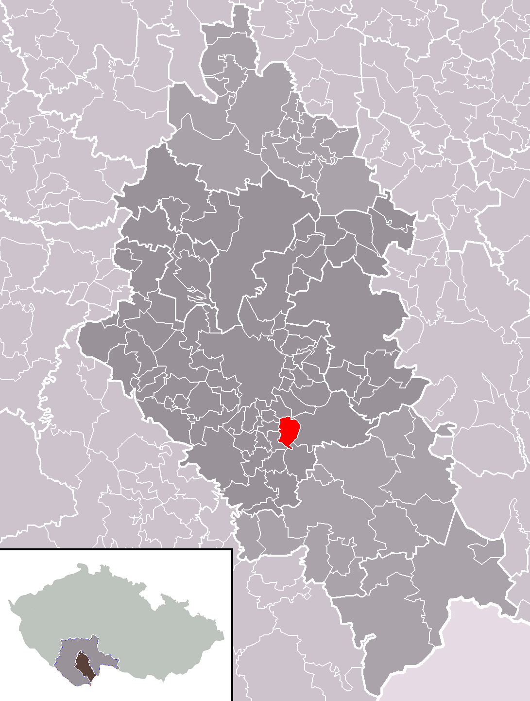 Location of Nová Ves municipality within České Budějovice District and administrative area of České Budějovice as a Municipality with Extended Competence.